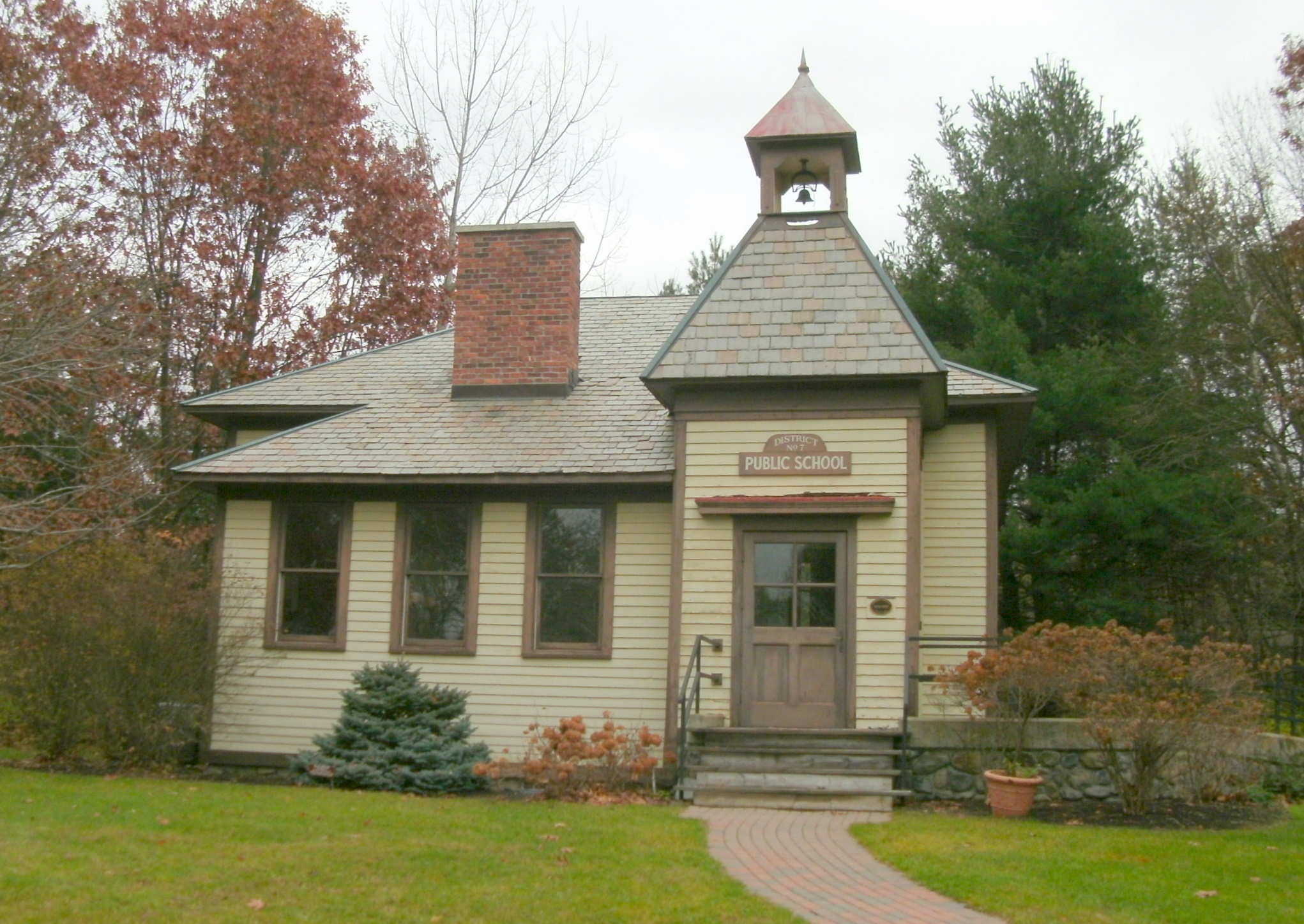 GE DIGITAL CAMERA Pruyn House - Colonie, New York